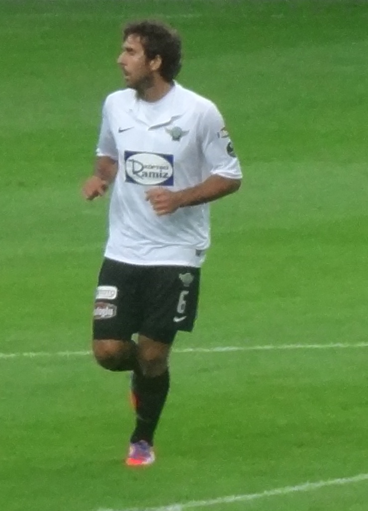 Merter